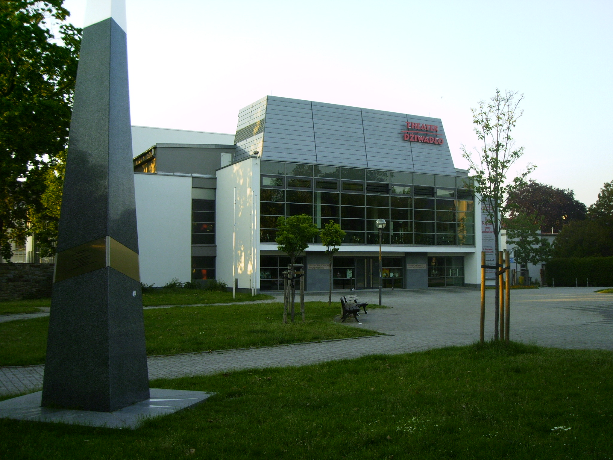 German-Sorbian Folk Theatre in Bautzen in Saxony, Germany.